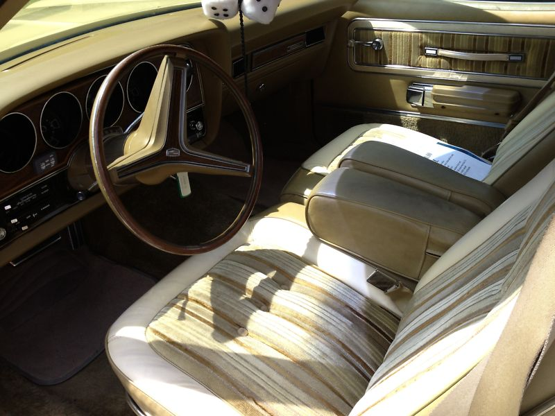 Interior view of a 1974 Mercury Montego MX Brougham